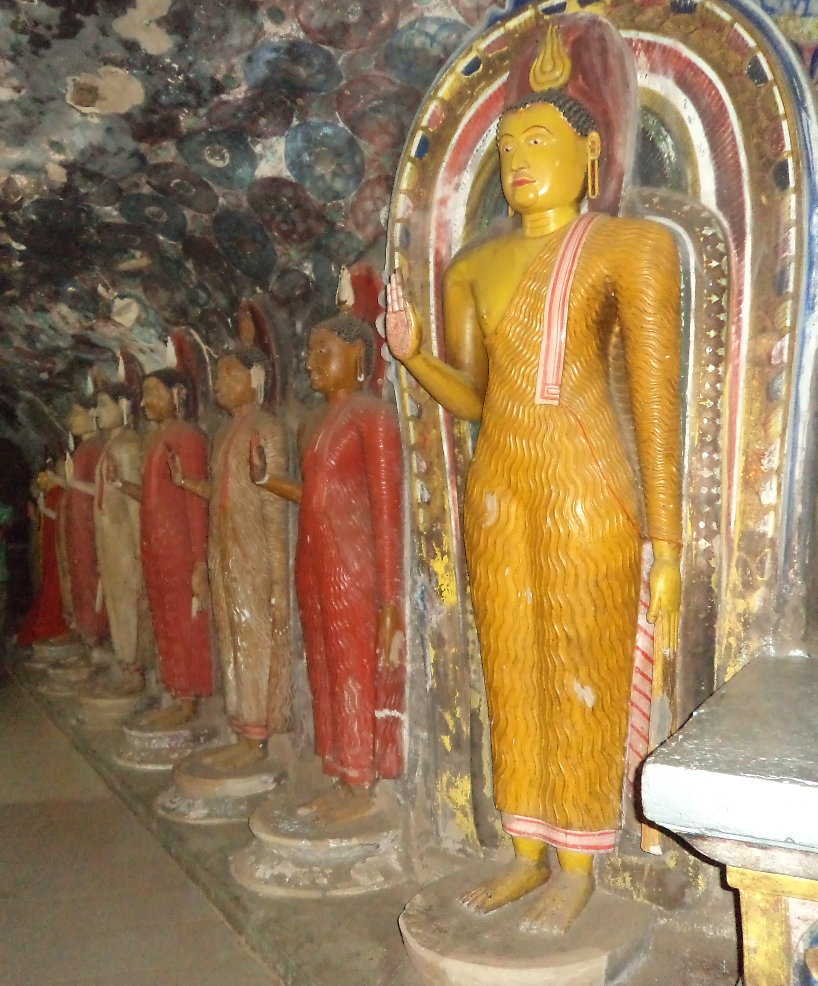 Statues of Gautama Buddha at Maha Viharaya, Ridi Viharaya, Kurunegala, Sri Lanka